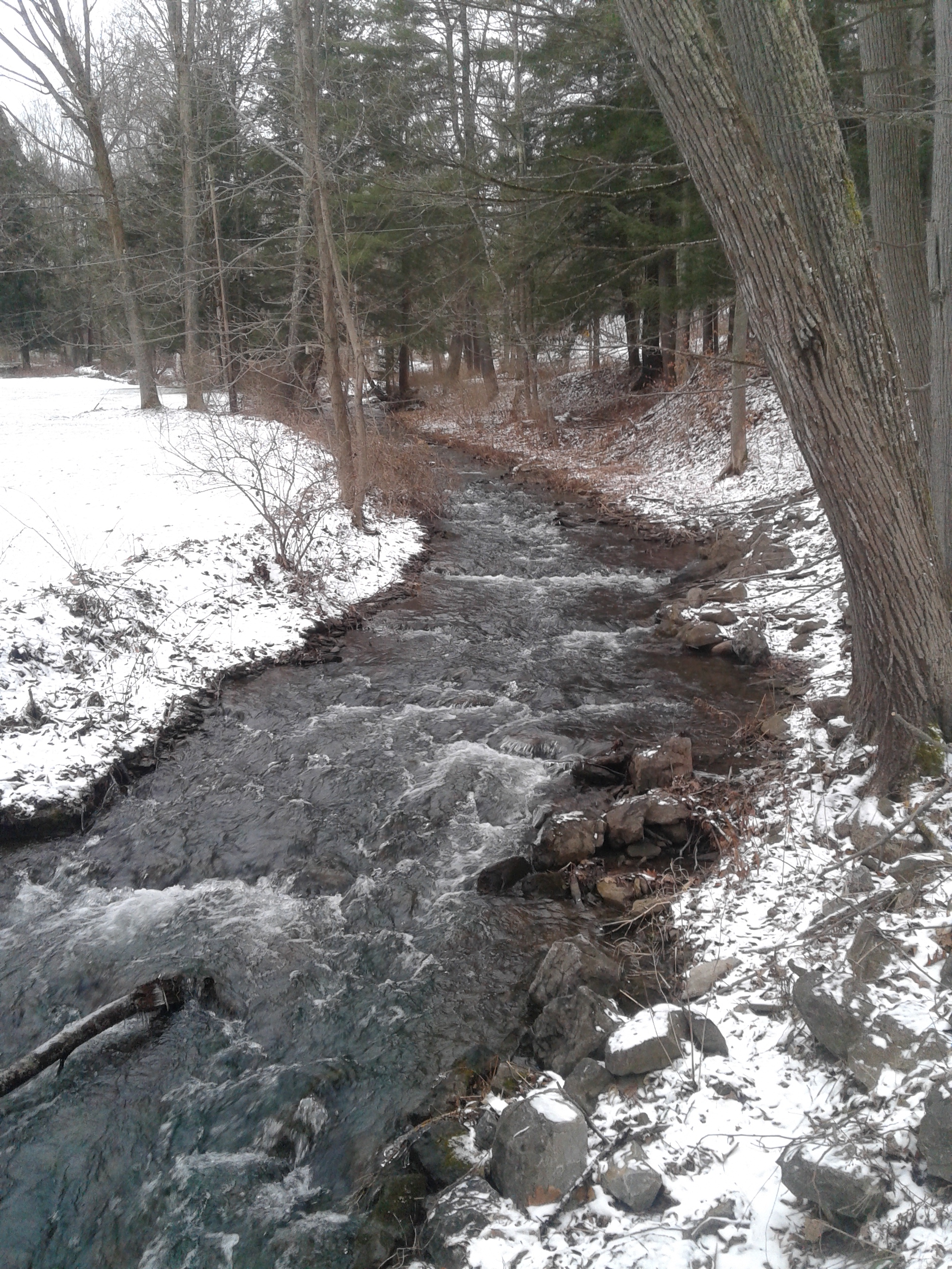 Leatherstocking Creek north of Cooperstown, New York before it crosses Sam Smith's Boat Yard driveway in December 2018.